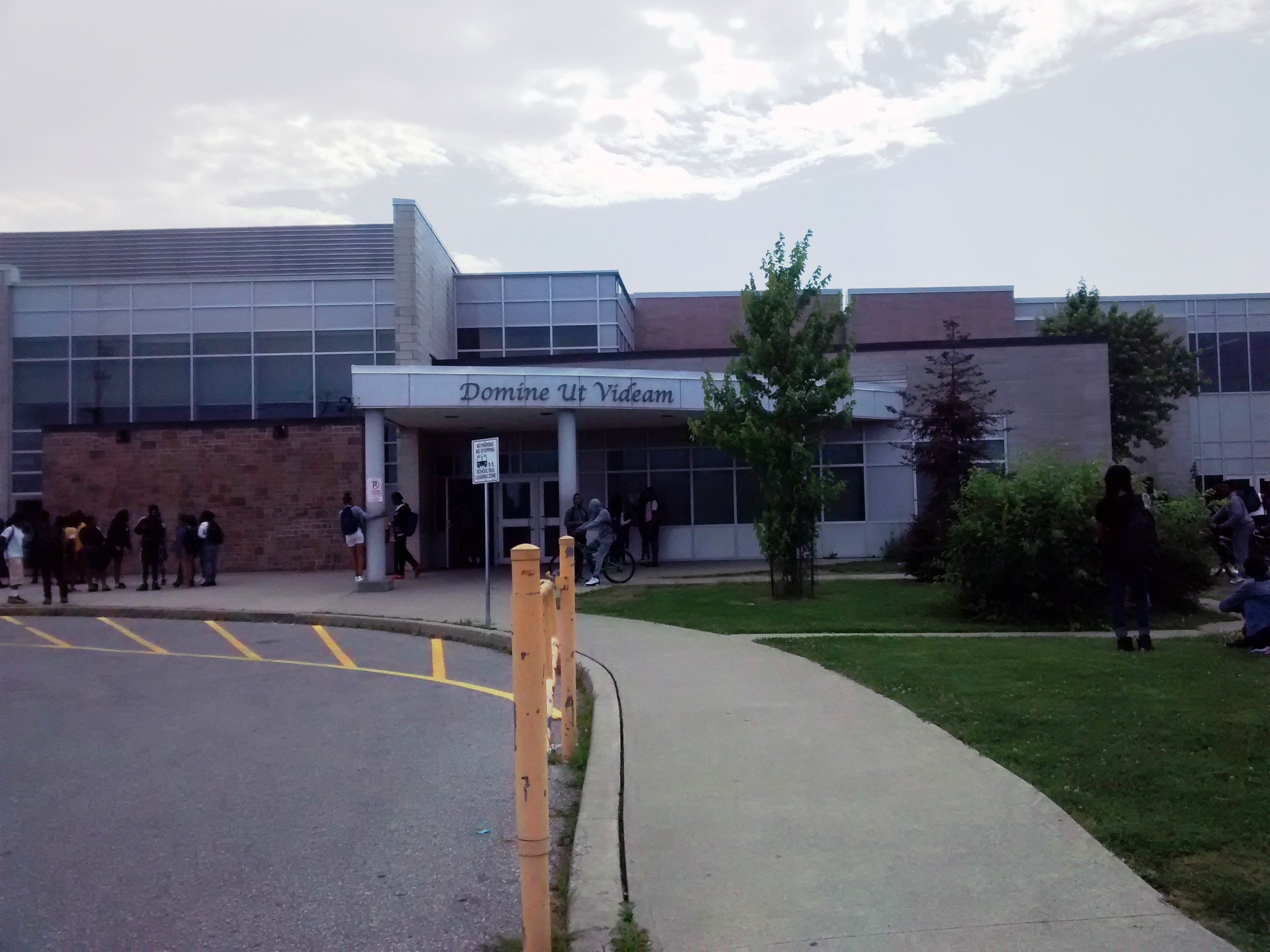 The former Humbergrove Secondary School building, occupied by Father Henry Carr C.S.S. and before that, Marian Academy High School from 1988 to 2002.